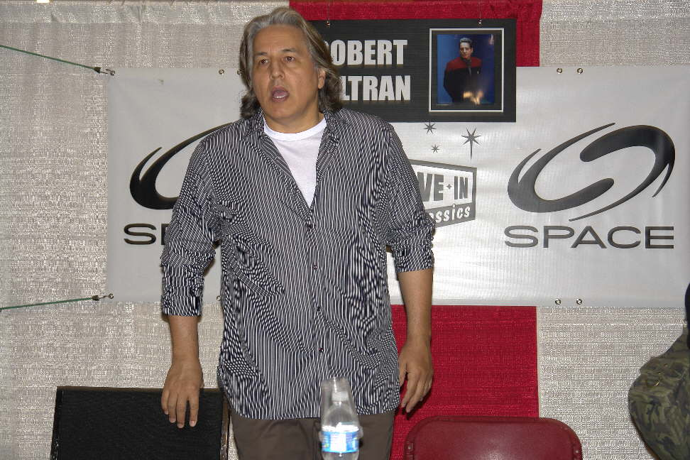 Robert Beltran at Science Fiction Expo 2007 on August 24, 2007.